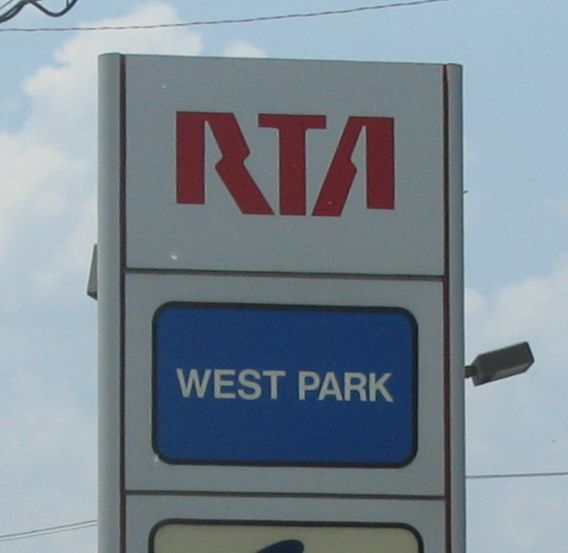 Sign at the entrance to West Park Station on the Red Line of Cleveland RTA Rapid Transit